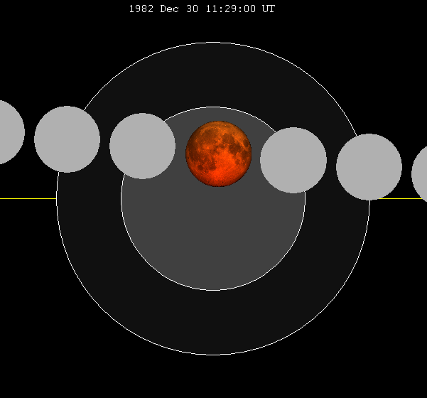 December 1982 lunar eclipse chart of moon's path through the earth's shadow. thumb